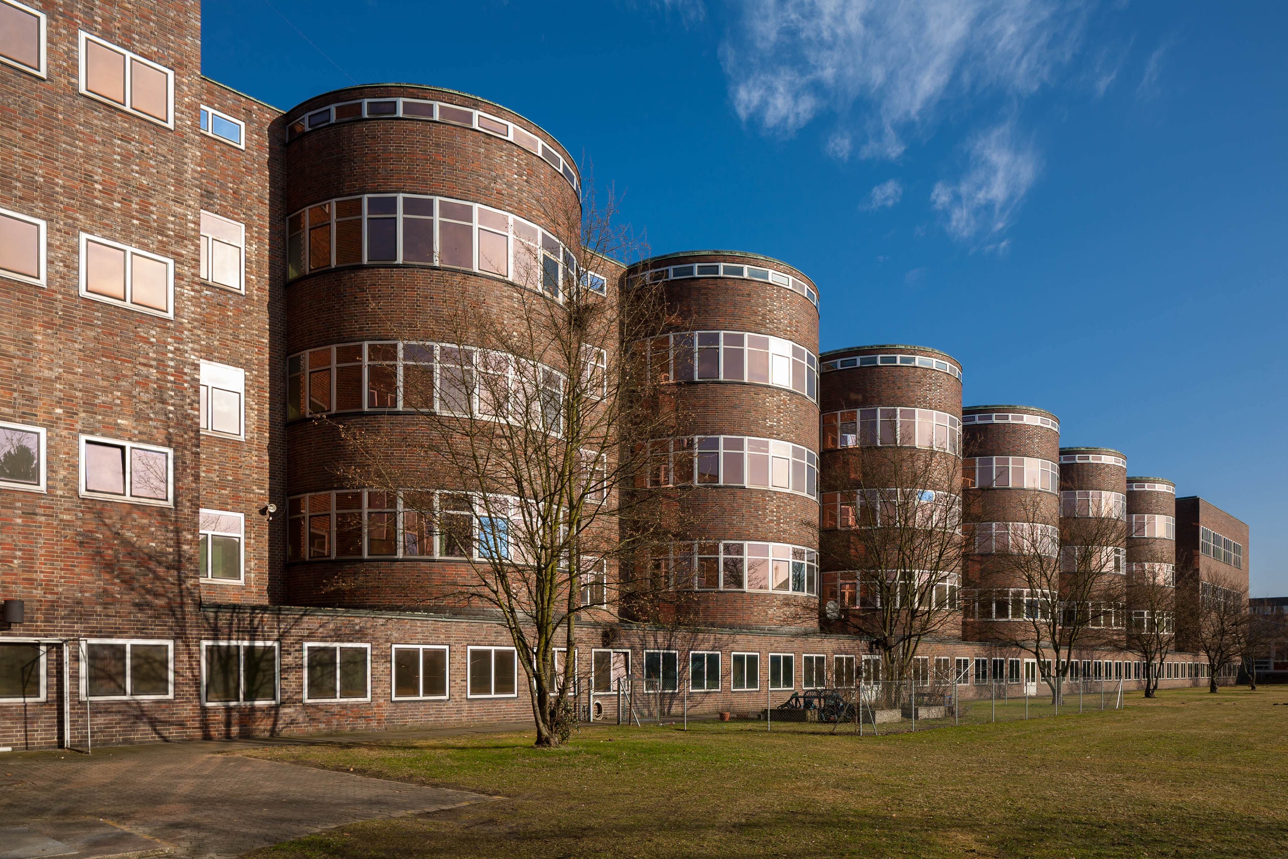 Site Bismarckstraße 2 of the university of Hanover, Germany.